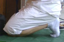 posture kiza _ detail